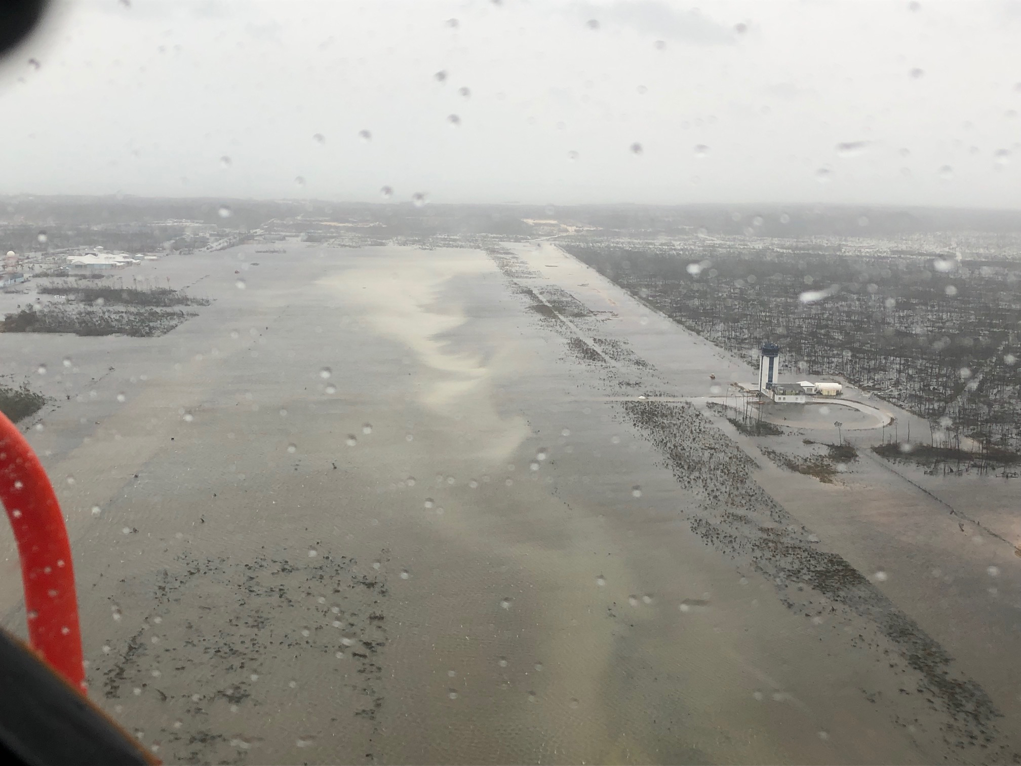 Marsh Harbour Airport, Bahamas, following devastation by Hurricane Dorian on September 2, 2019